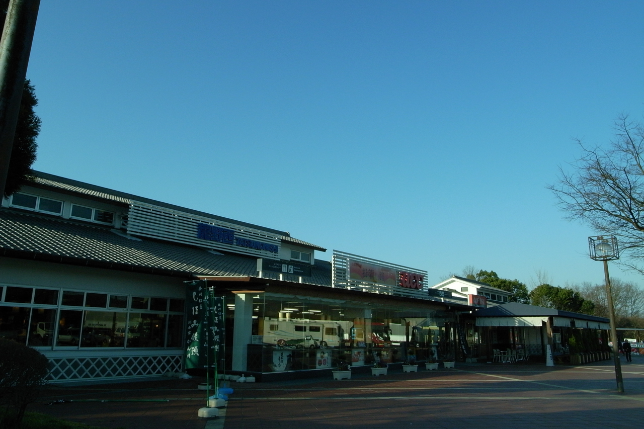 Tatsunonishi rest area in Tatsuno, Hyogo, Japan.